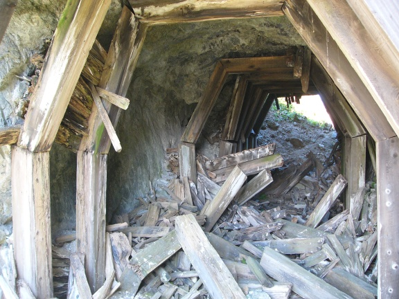 North Pacific Coast Railroad tunnel near Tomales, California.